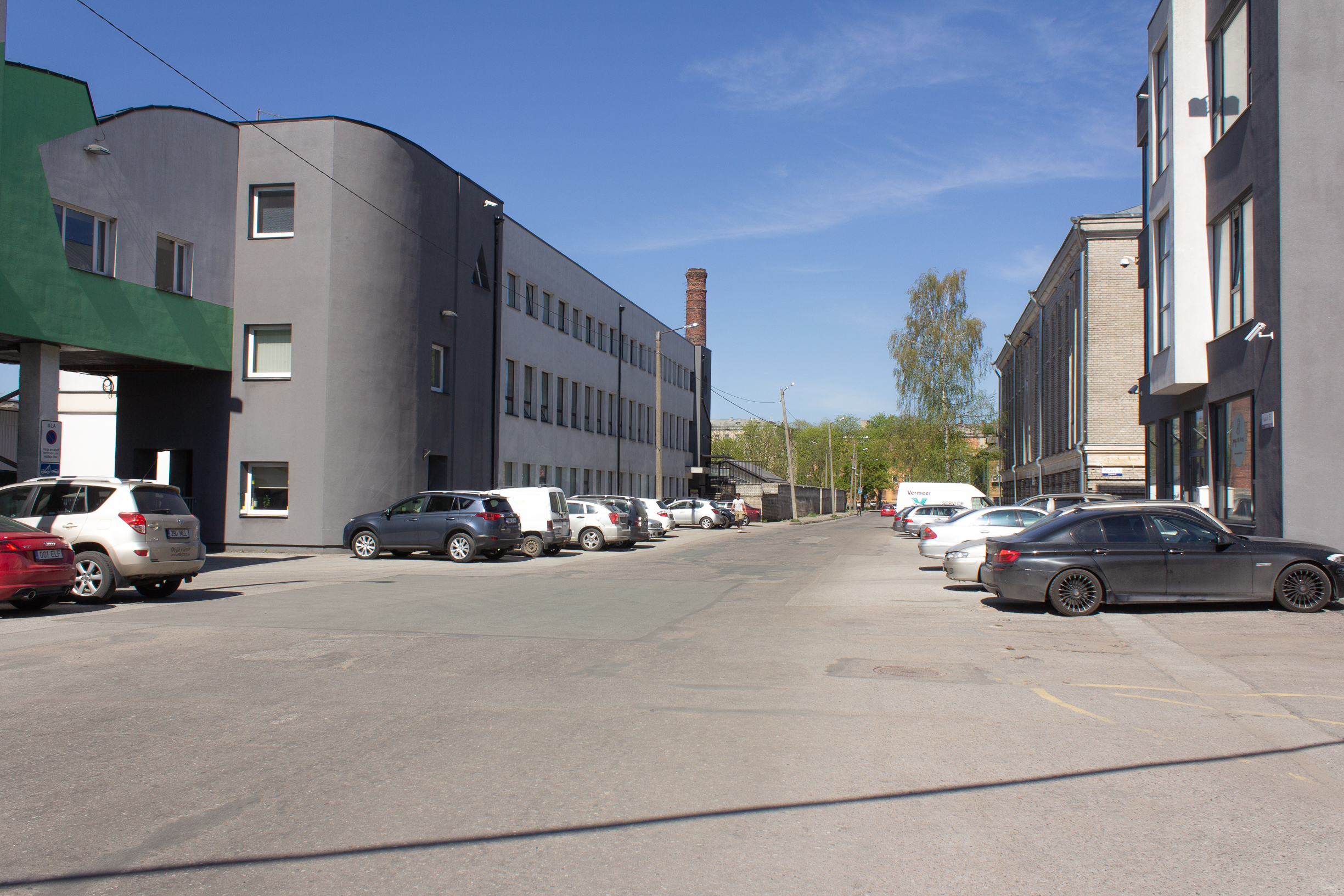 Paavli Street